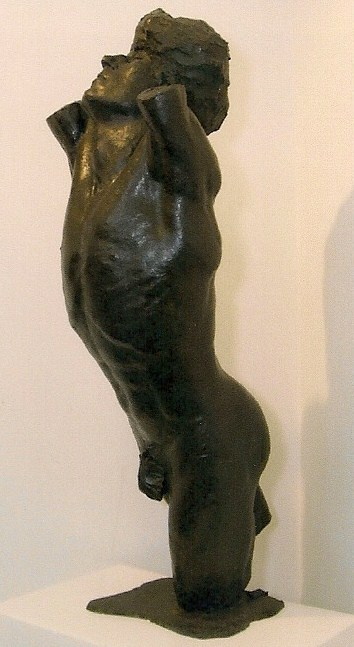 Torso II, sculpted by William Lamb, Montrose